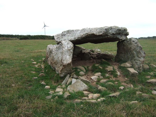 Parc-y-cromlech burial chamber. The remnants of this neolithic chambered tomb are impressive despite its low stature. A very large capstone is still balanced on 3 uprights. The juxtaposition of a modern wind generator is a nice indication of the way people have taken advantage of this exposed site several millennia apart.